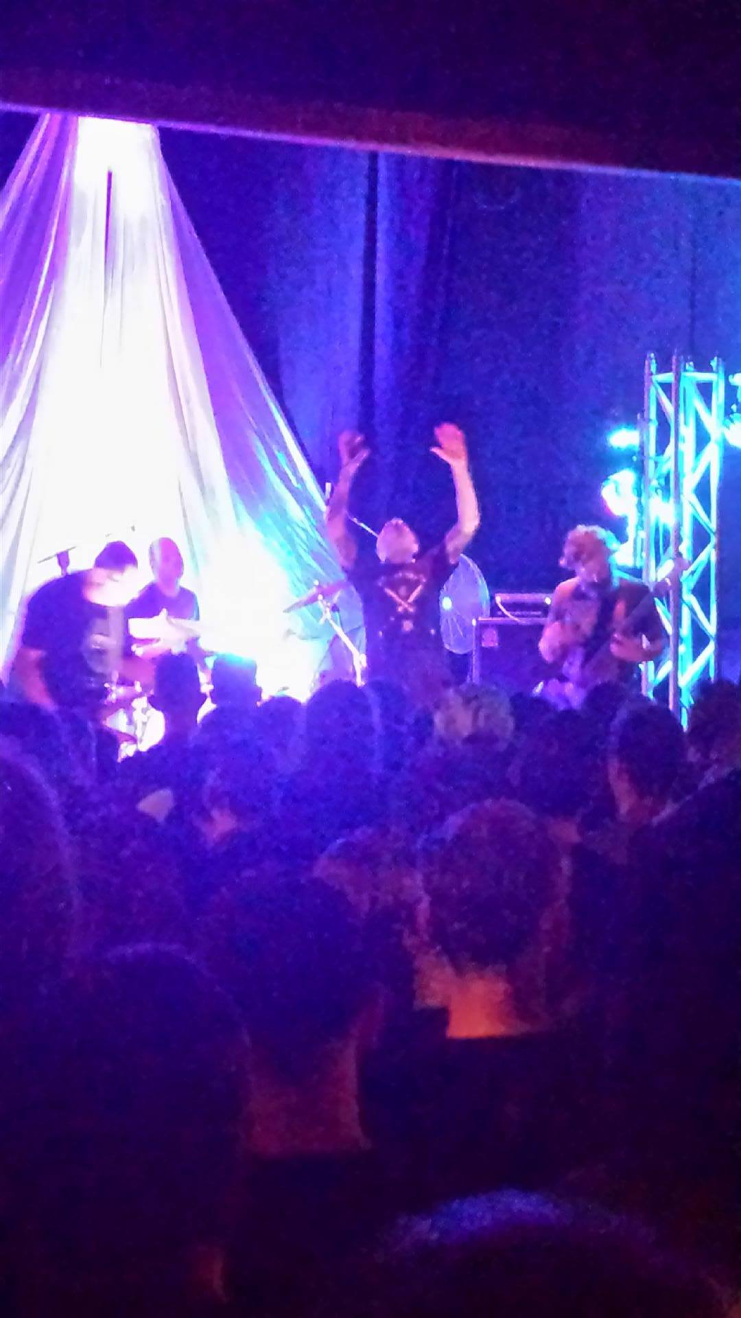 Beastwars performing in Auckland, New Zealand 2016